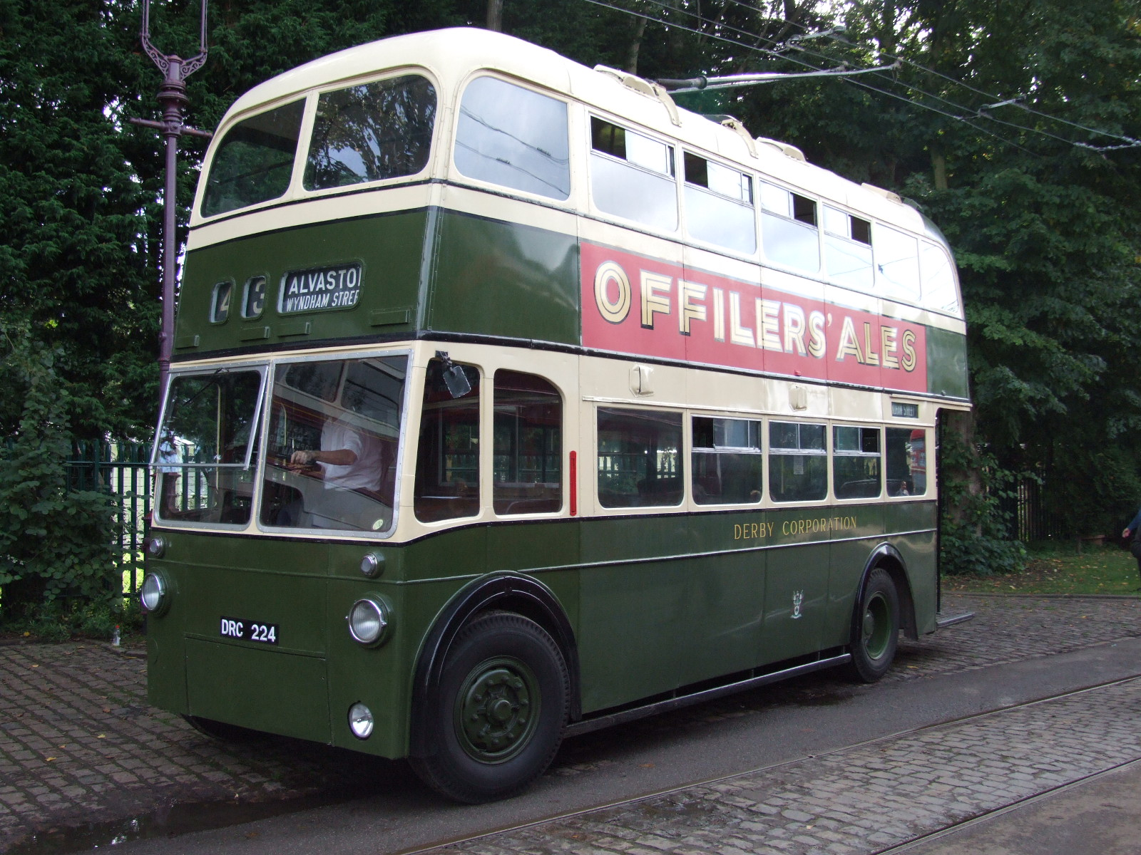 Derby trolleybus 224 DRC224 at EATM Carlon Colville 13/09/2008